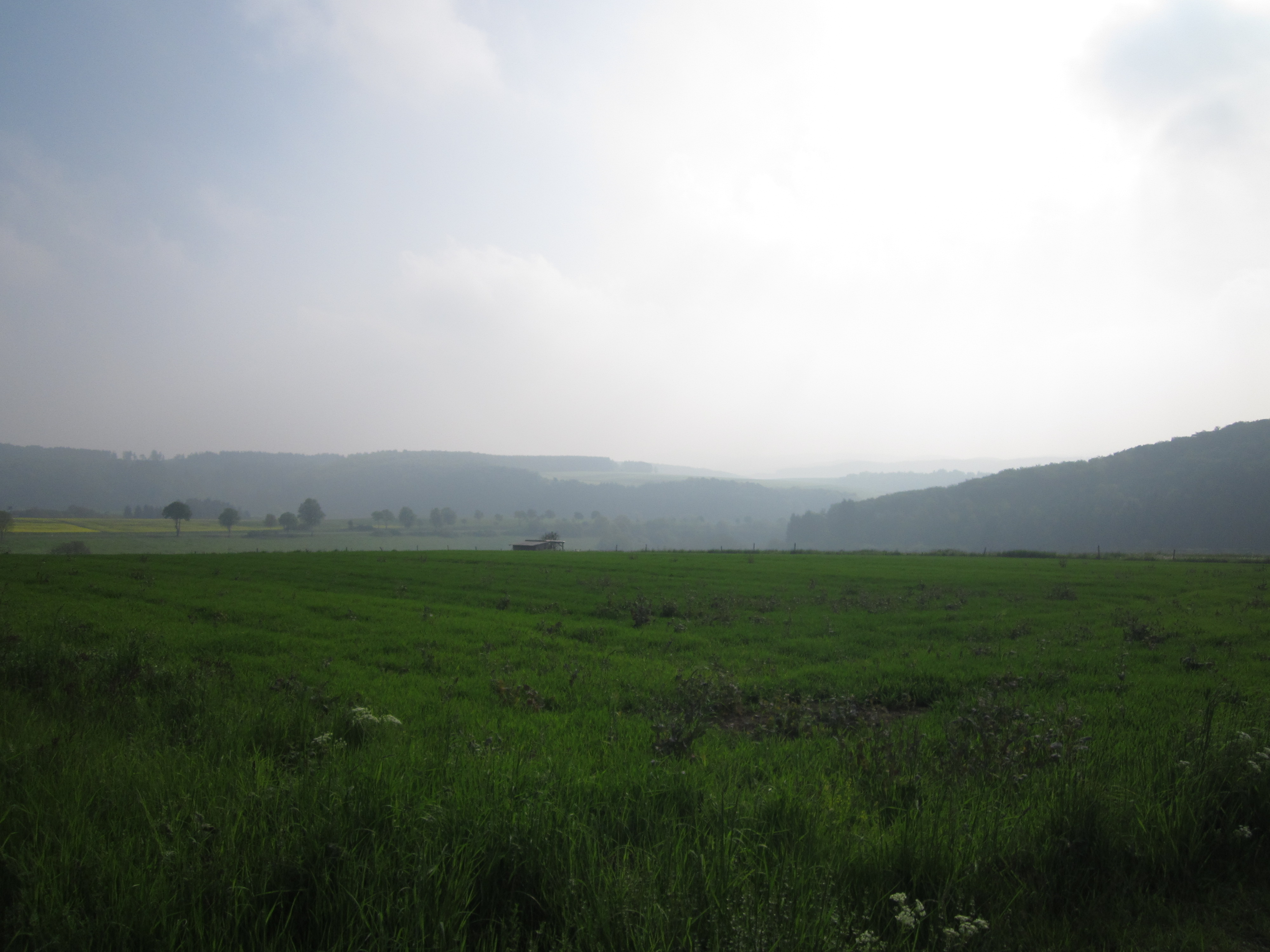 Vulkaneifel Landscape